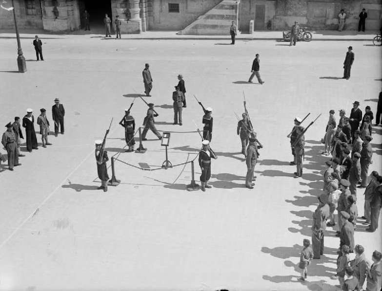 The Royal Navy during the Second World War Maltese ratings changing guard with the King's Own Malta Regiment in Palace Square as the George Cross is ceremoniously displayed in Palace Square, Valletta on the first anniversary of Malta being awarded the George Cross by His Majesty King George VI on 15 April 1942.